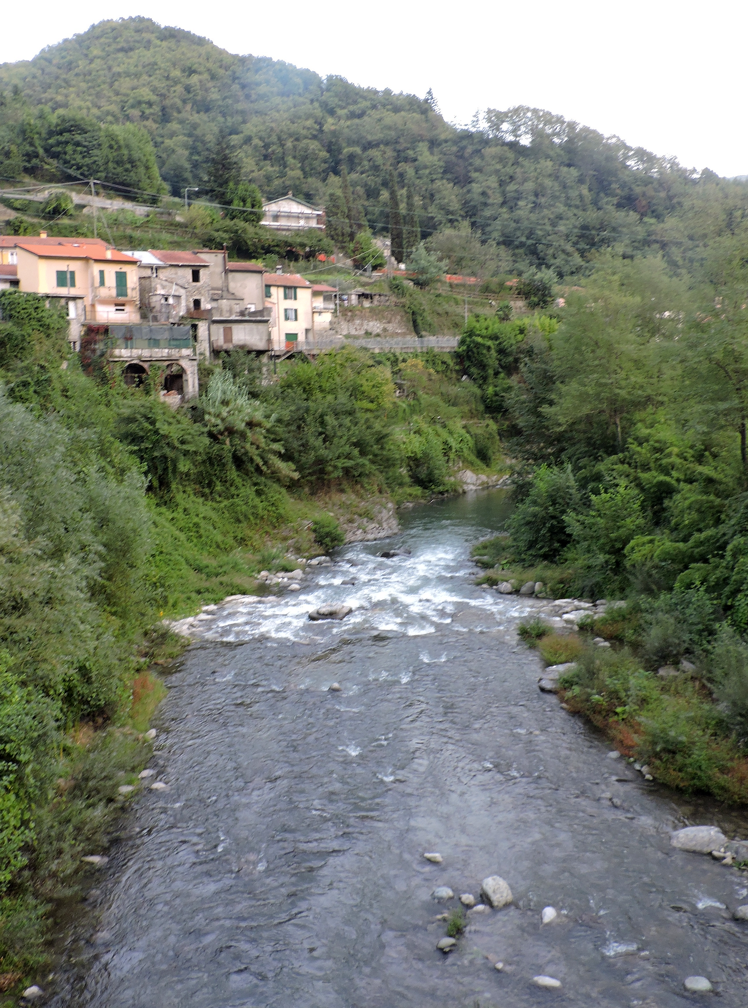 Sturla in Borgonovo Ligure (Mezzanego, GE, Italy)